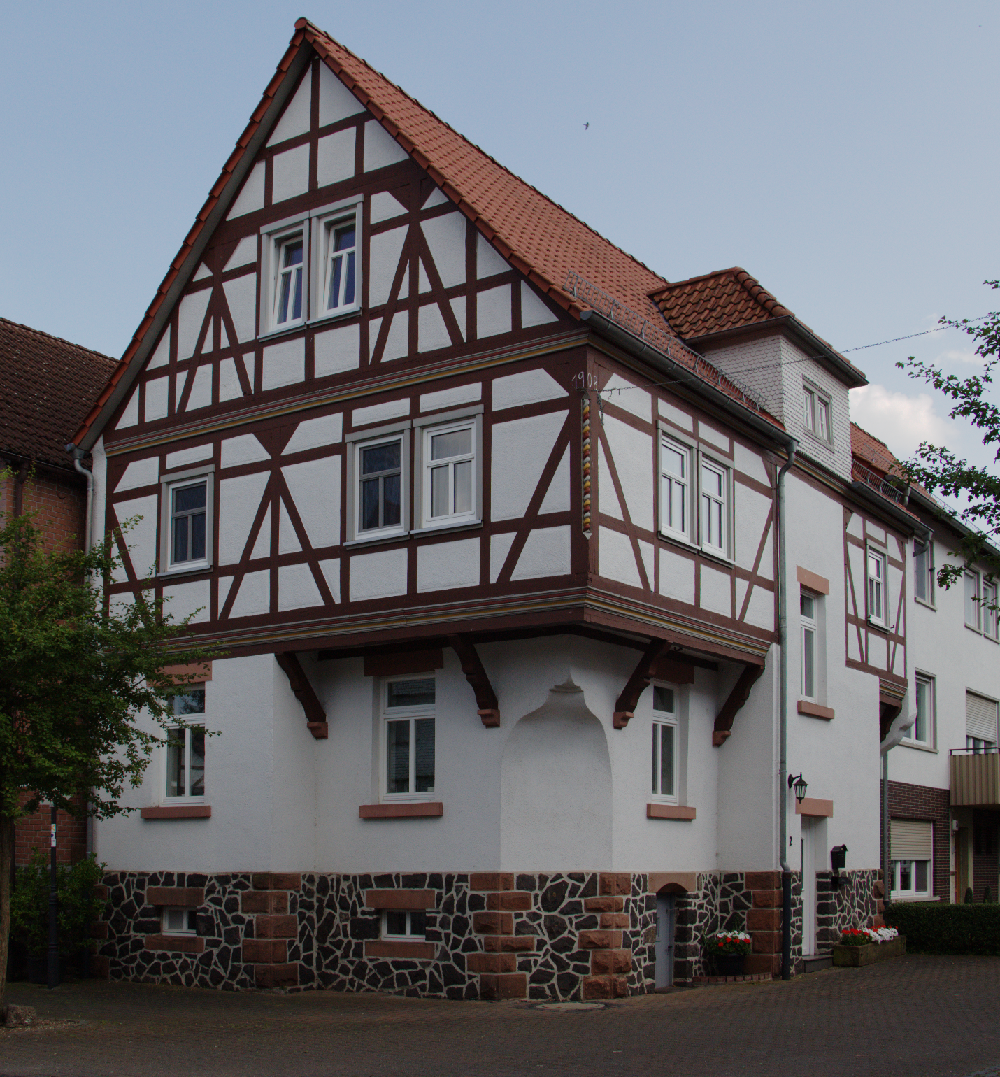 Half-timbered building in Ober-Ohmen Muecke Am Roemer 2 / Hesse / Germany